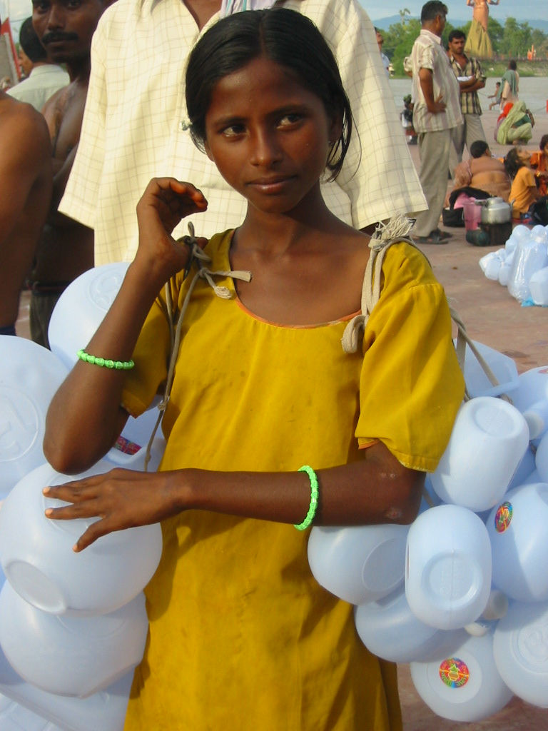 Inde Haridwar. A girl selling plastic containers for carrying Ganges water, Haridwar. Inde India people portrait young girl jeune fille child